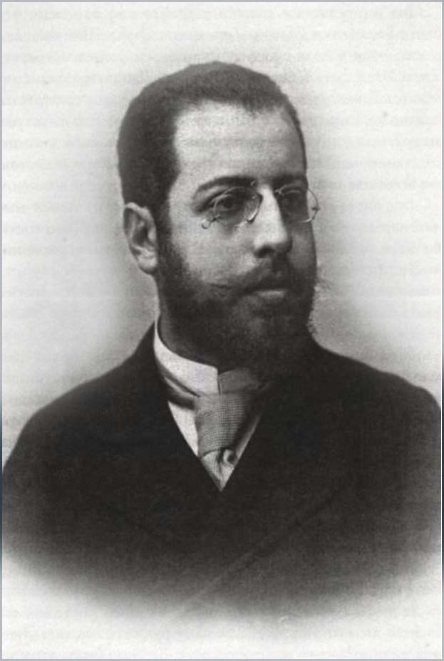 Victor Ephrussi (1860—1945)